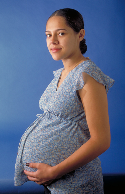 Pregnant woman at a WIC clinic in Virginia (vertically mirrored image).